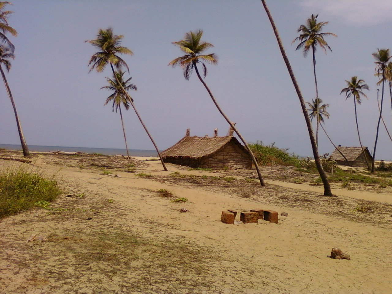 Achara pirawadi beach - my village